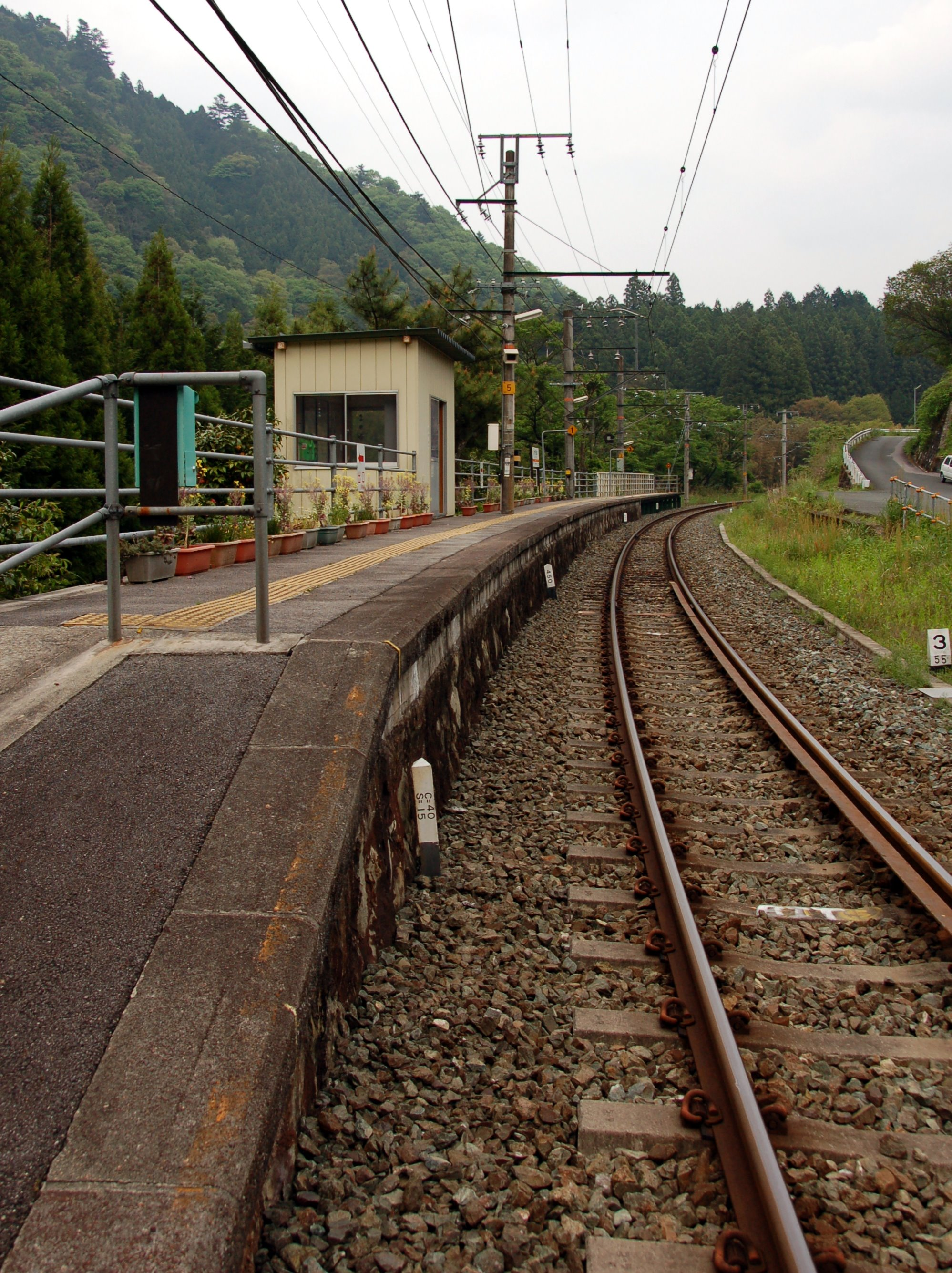 出馬駅 Izumma Station (Hamamatsu city,Shizuoka Prefecture,Japan)